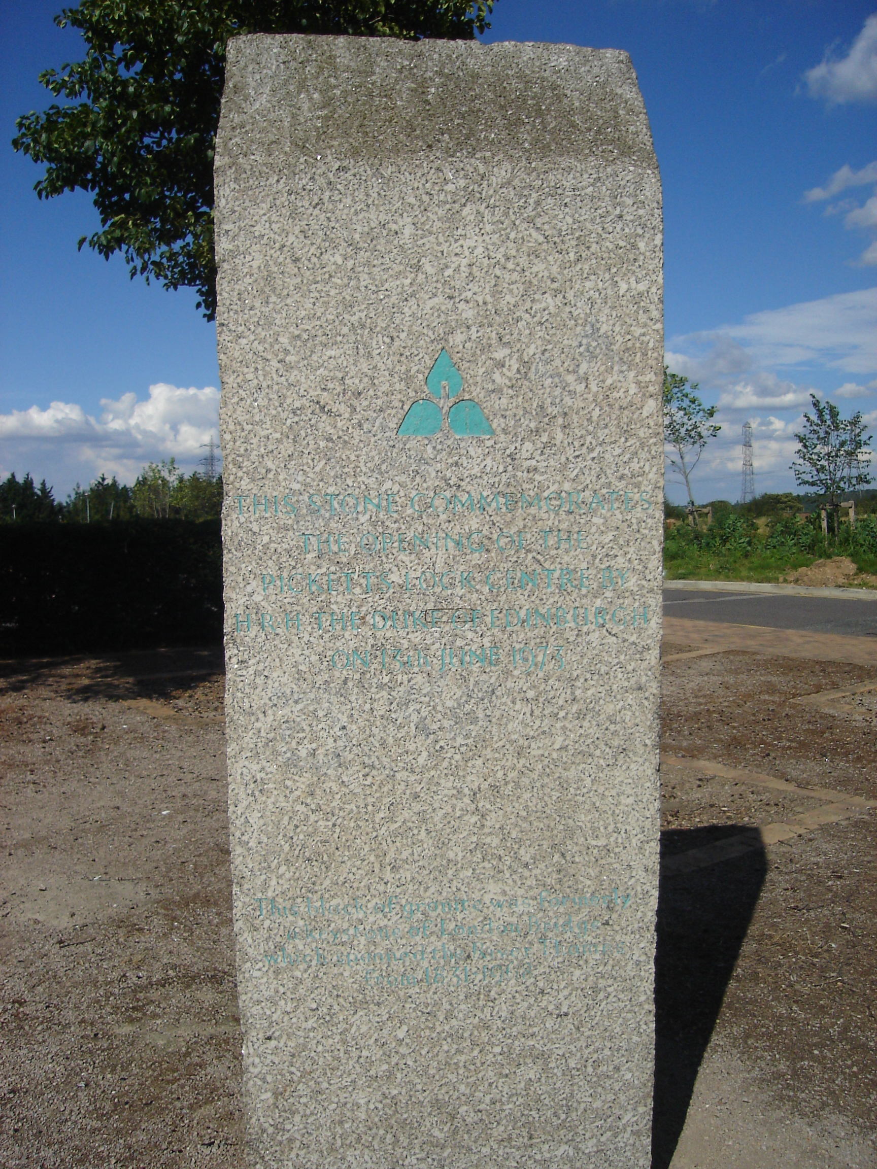 Photo of commemoration stone at Lee Valley Leisure Complex